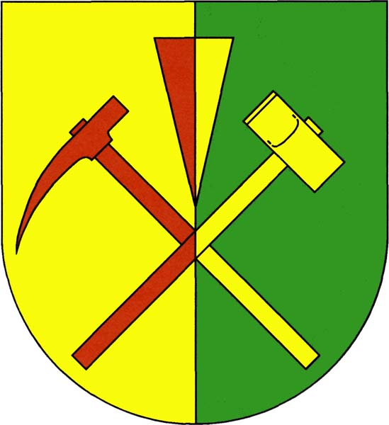 Coat of amrs of Kamenné Zboží , District Nymburk, Czech Republic